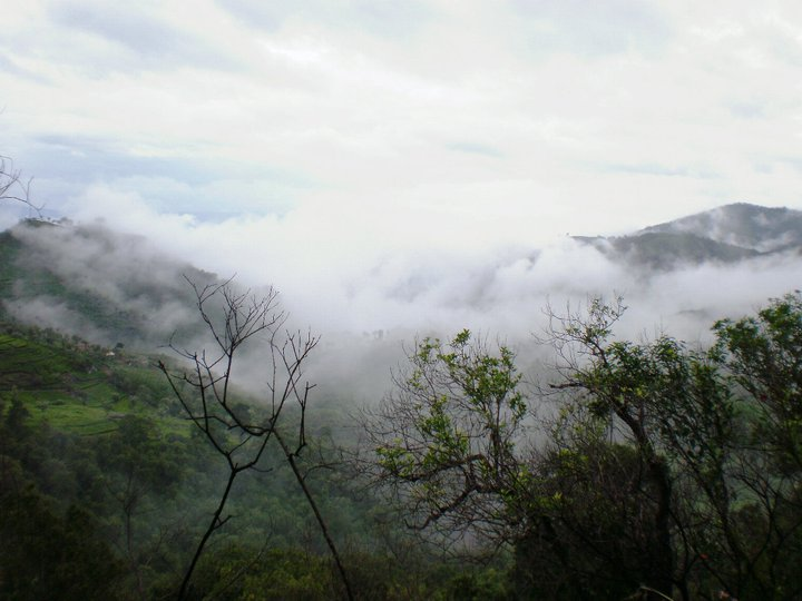 places around selas